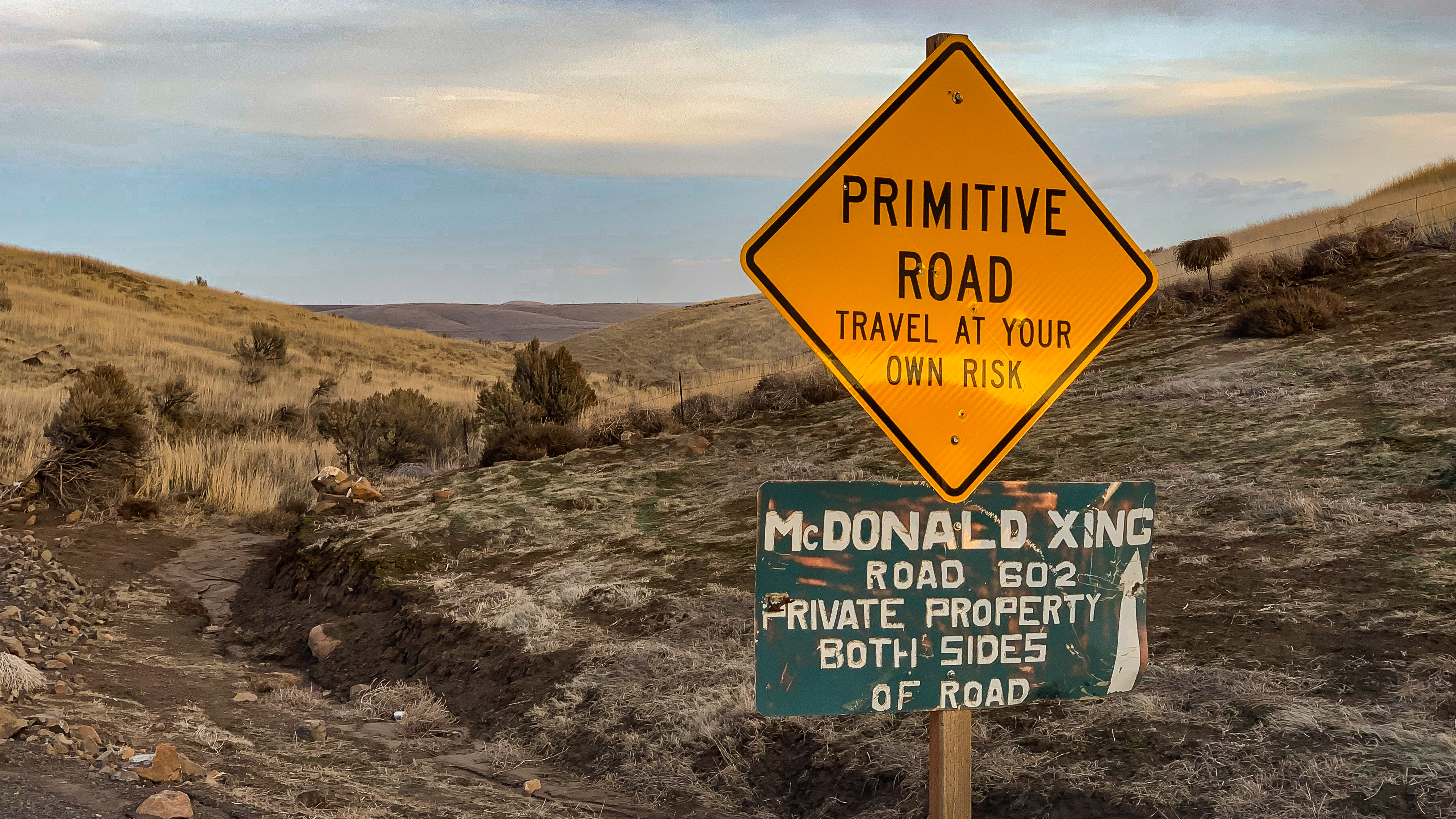 The gravel McDonald Ferry Road meanders eastward toward the McDonald Crossing Interpretive Site and the Wild and Scenic John Day River, Dec. 21, 2017, by Greg Shine, BLM. Thousands of resettlers traveling west on the Oregon Trail used the shallow river ford, known today as McDonald Crossing, to traverse the lower John Day River on their way to the Willamette Valley and lands beyond. Today, McDonald Crossing is a rare confluence where national historic trail meets national wild and scenic river. At the McDonald Crossing interpretive site –a short distance from the western, Sherman County riverbank –a historic monument, ramada and informational signs help interpret the Oregon National Historic Trail and the area’s history. For more information, contact our Prineville District Office at (541) 416-6700 or visit at 3050 NE 3rd St., Prineville, OR 97754. The National Historic Oregon Trail Interpretive Center (NHOTIC) in Baker City, Oregon, offers living history demonstrations, interpretive programs, exhibits, multi-media presentations, special events, and more than four miles of interpretive trails. For more information, call 541-523-1843 or visit online at . The mailing address is: National Historic Oregon Trail Information Center 22267 Oregon Hwy 86 PO Box 987 Baker City, OR 97814